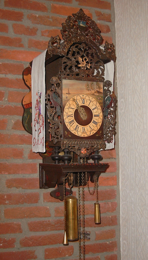 Dutch Stoelklok